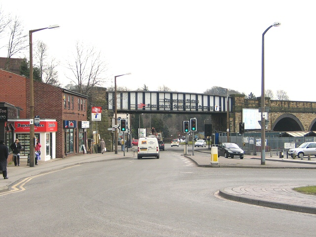 Chapeltown. Railbridge over the central intersection of the A6135 and the A629 at Chapeltown.